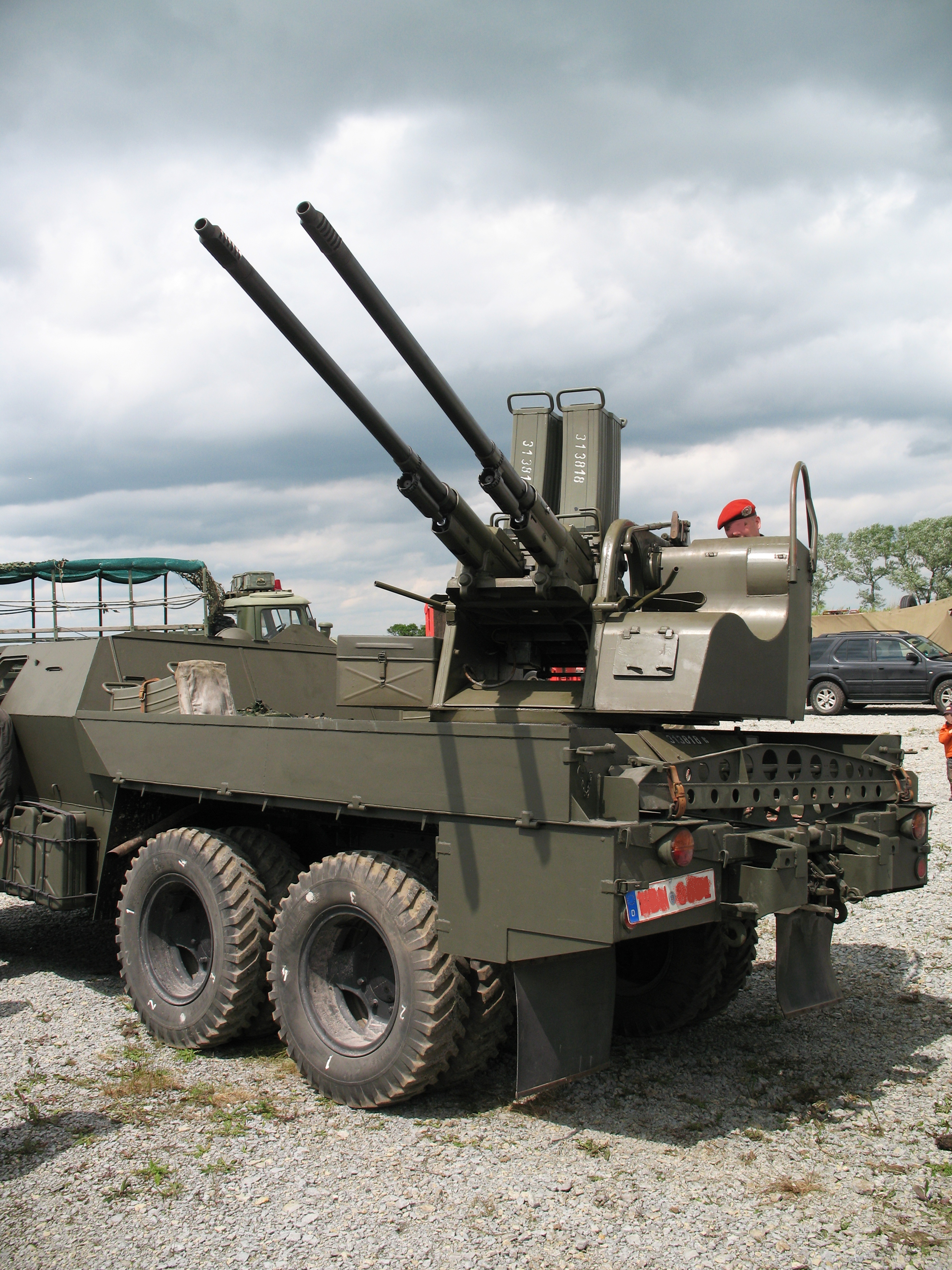 Restored Czechoslovakian M53/59 Praga 30 Millimeter twin anti-aircraft gun, shot at Flugplatzfest 2009 at Alkersleben airfield, Germany.